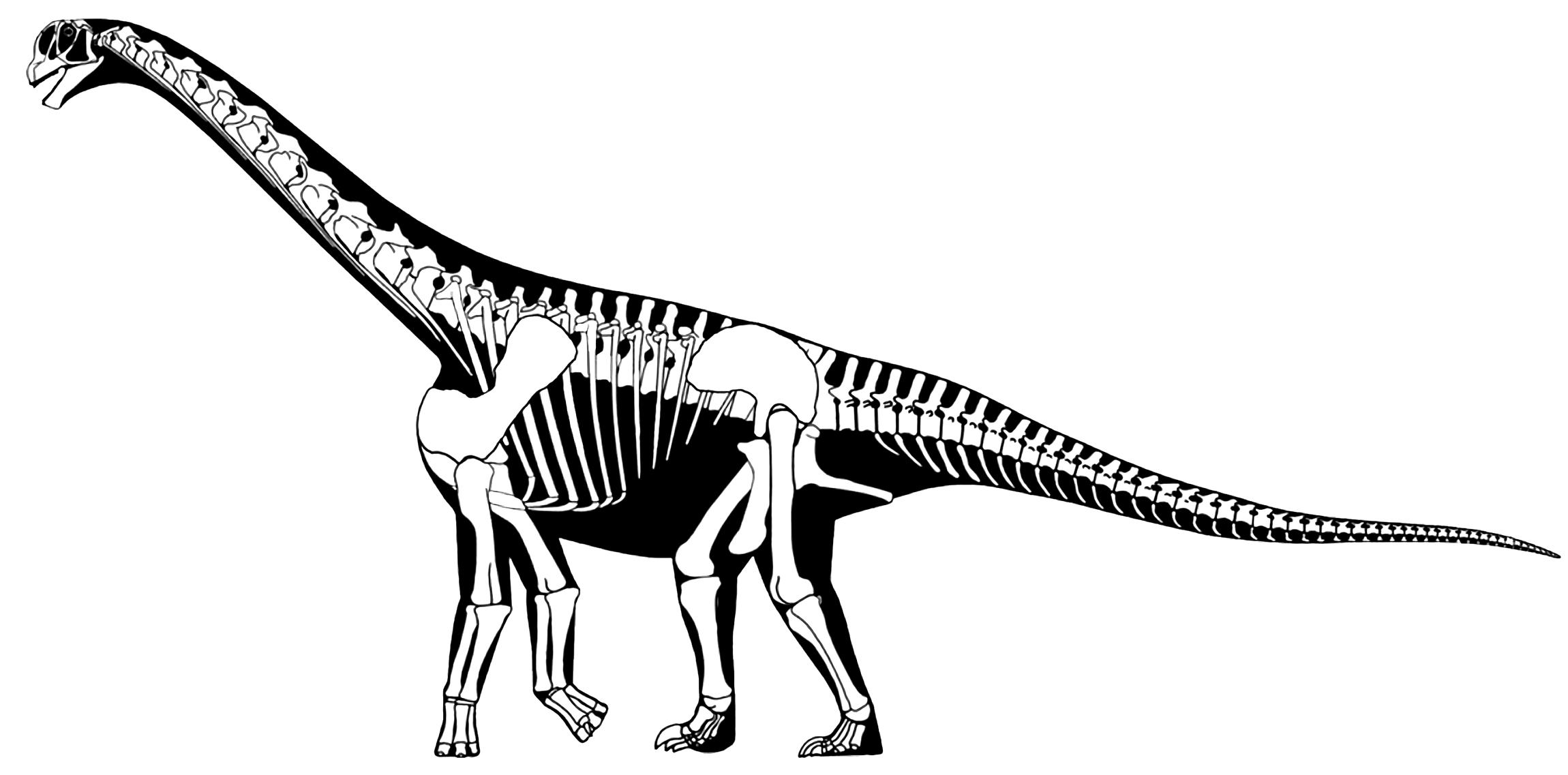 Camarasaurus grandis reconstruction kindly provided by Scott Hartman. This version is modified from a version which was itself modified with grey to show the known parts of the new genus Brontomerus.